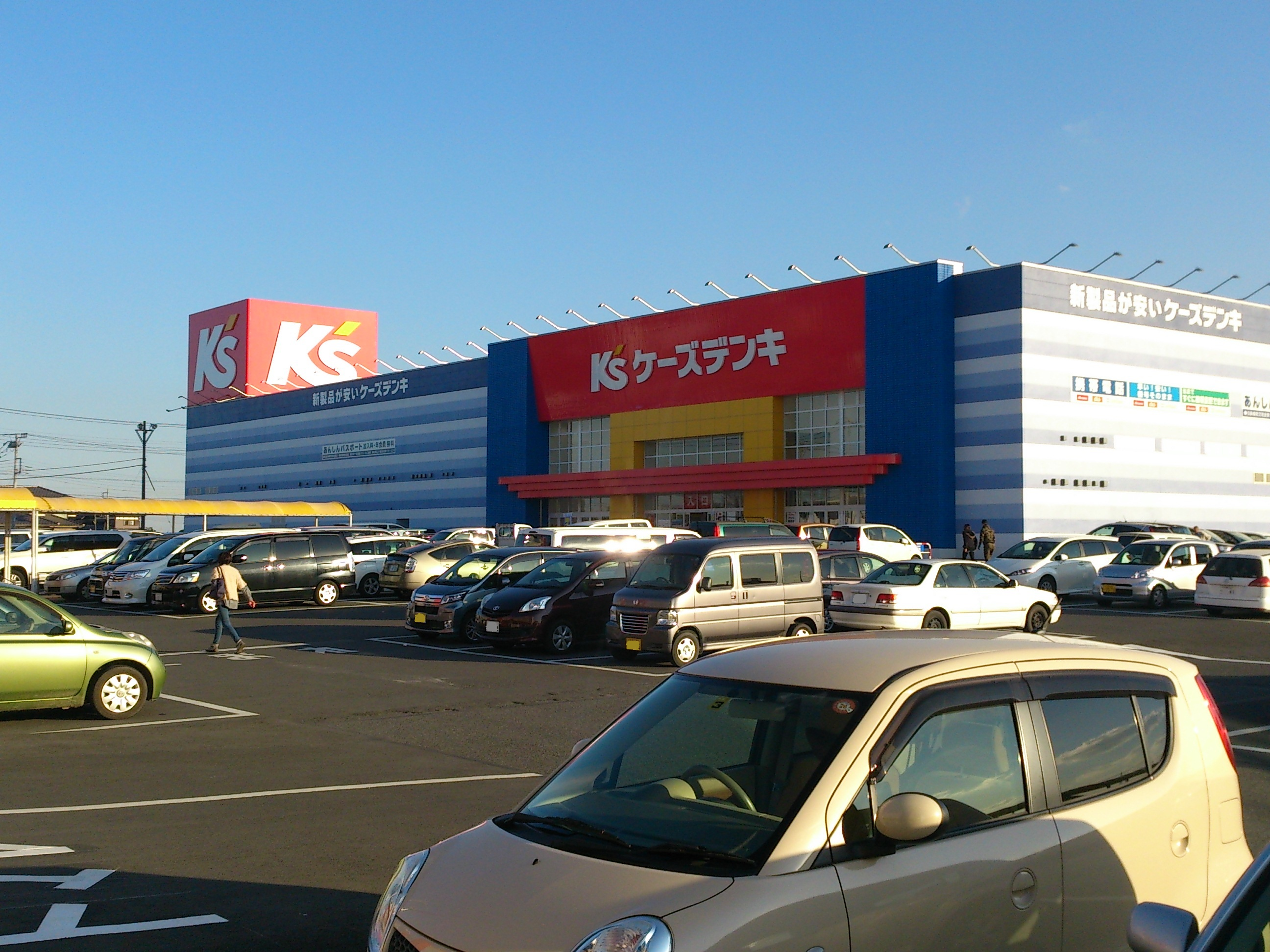 K's Denki Inashiki Store